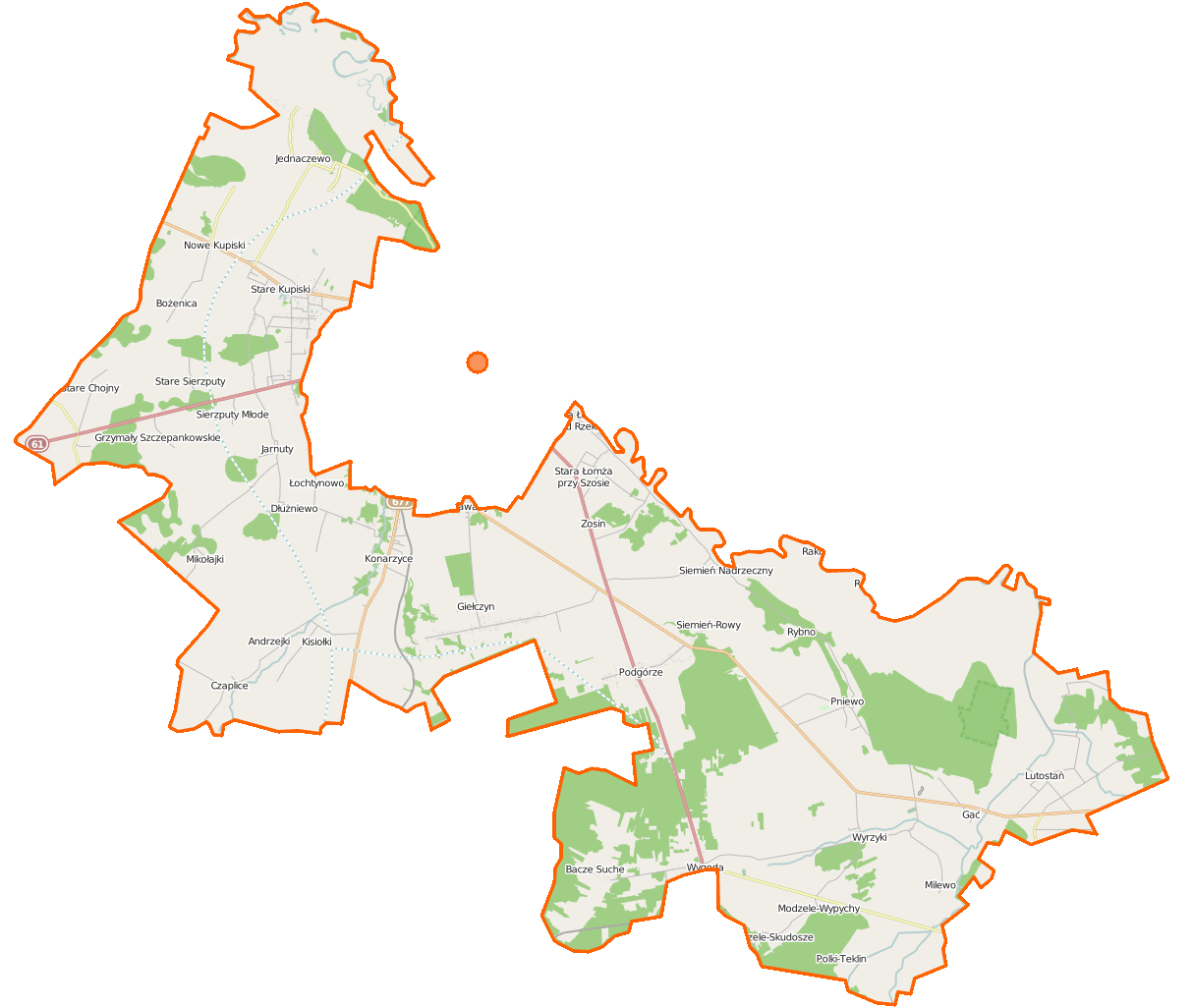 Map of Gmina Łomża, Poland This map of Łomża (gmina wiejska) was created from OpenStreetMap project data, collected by the community. This map may be incomplete, and may contain errors. Don't rely solely on it for navigation. Border coordinates53.251021.9064←↕→22.322553.0396